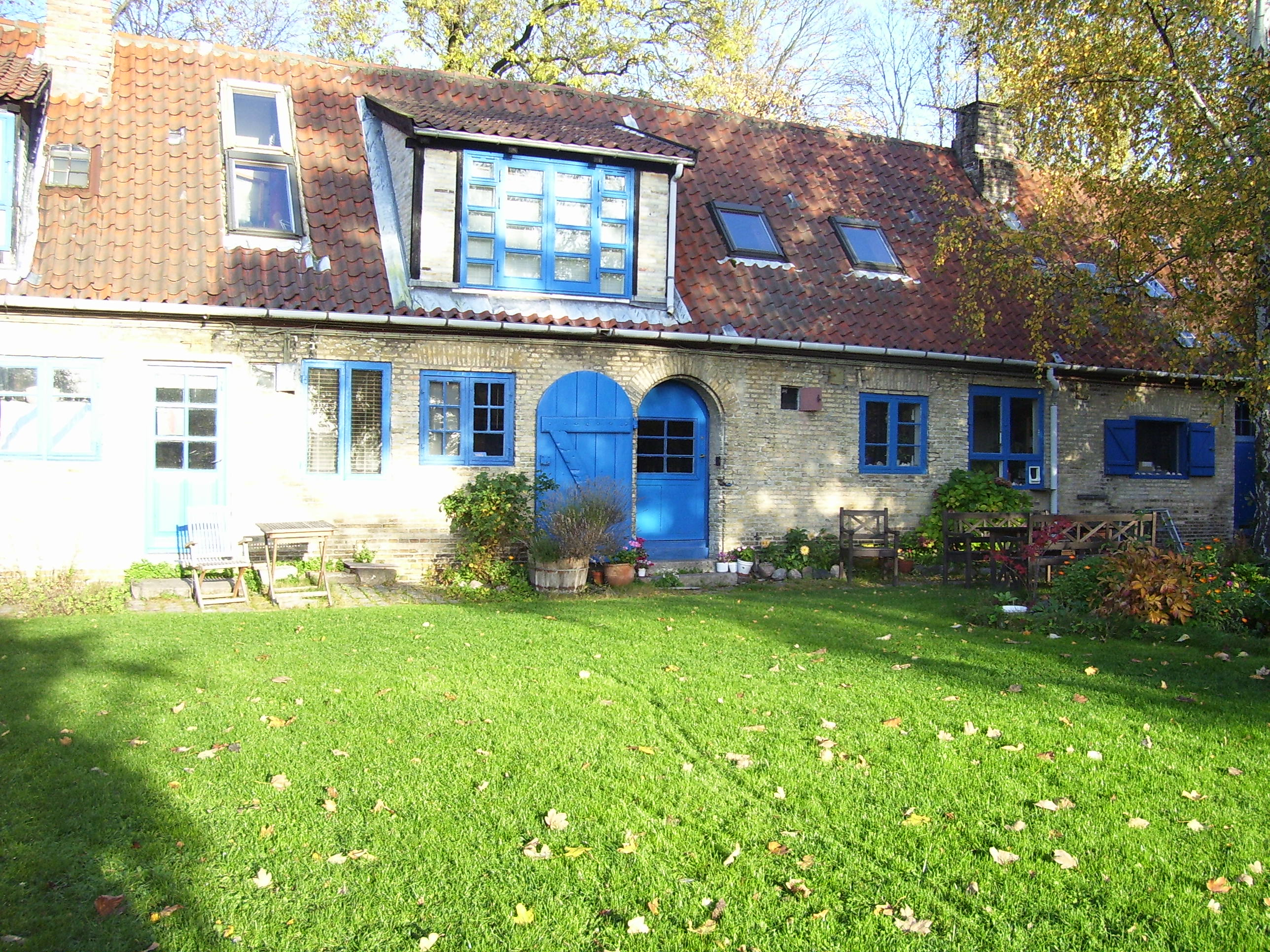 Aircondition, Christiania at Norddussen in Copenhagen, Denmark